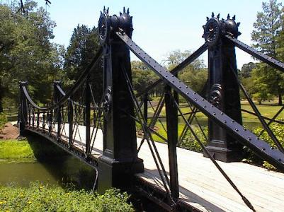 A 19th century footbridge in Forest Park. Though the bridge is little used today, many of the park's early visitors rode the streetcar from the city, got off at the Laclede Pavilion and, after a short walk, entered the park over this bridge. (The Laclede Pavilion, which was torn down in 1938, was near the corner of Kingshighway and Lindell) The footbridge was built in 1885 and restored in 1994. I took this picture myself and reserve no rights to this image. Bluelion 21:36, 15 May 2004 (UTC)